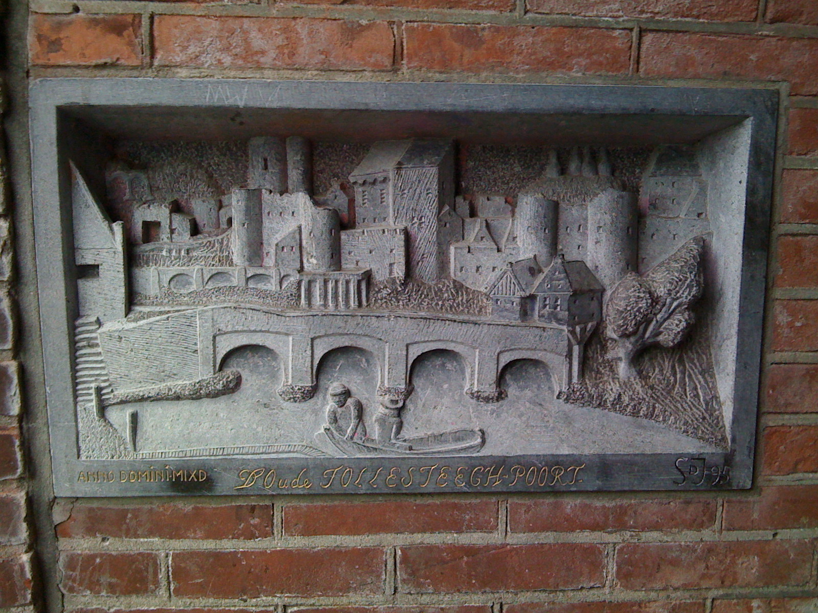 D' Oude Tollesteegh-poort The Old Tolsteeg Gate. Tolsteegbrug/ Manenburg, Utrecht, NL